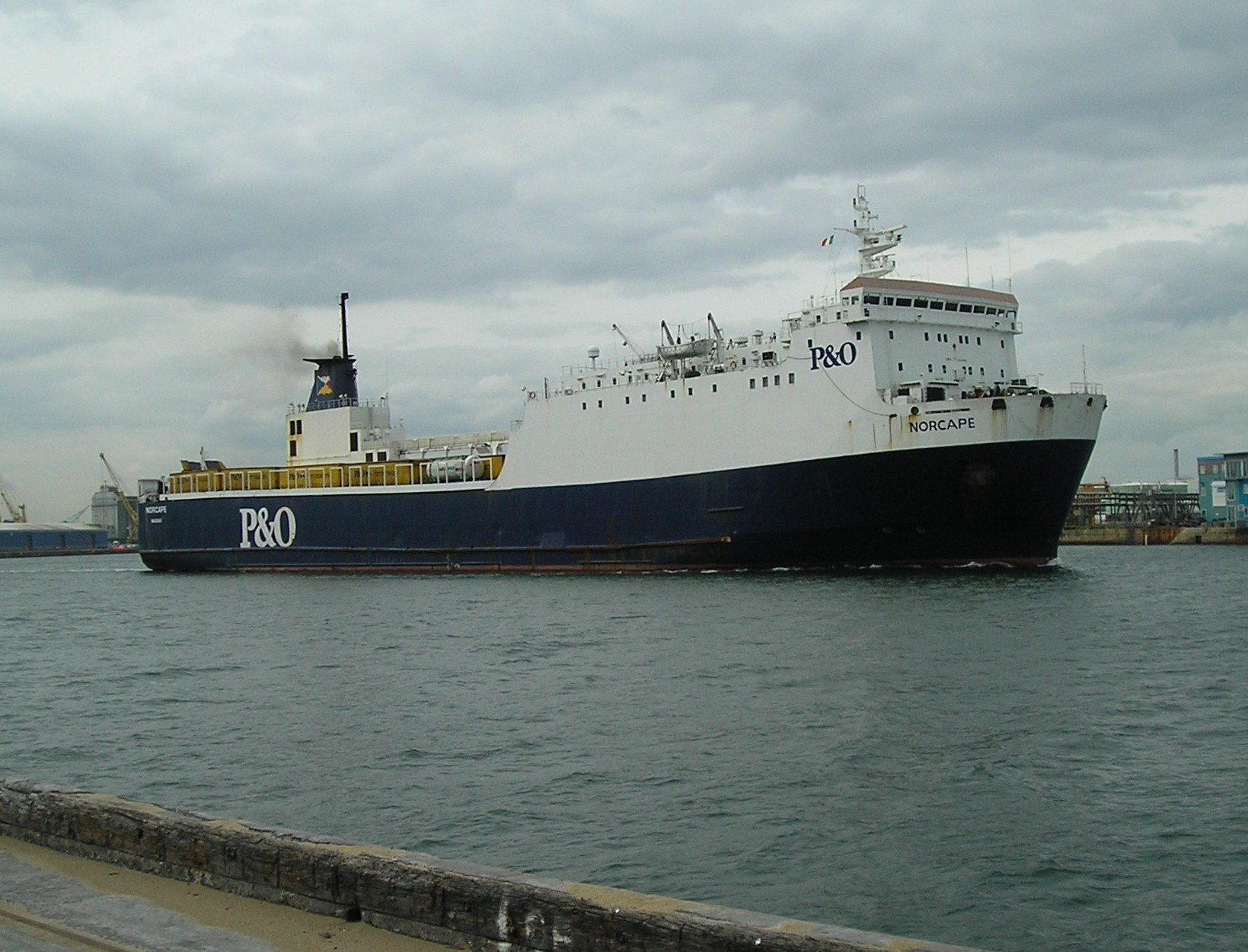 "Norcape" sailing from Dublin 17th May 2010